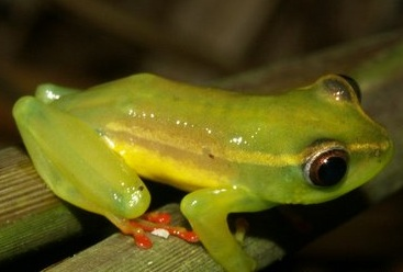 Hyperolius riggenbachi hieroglyphicus